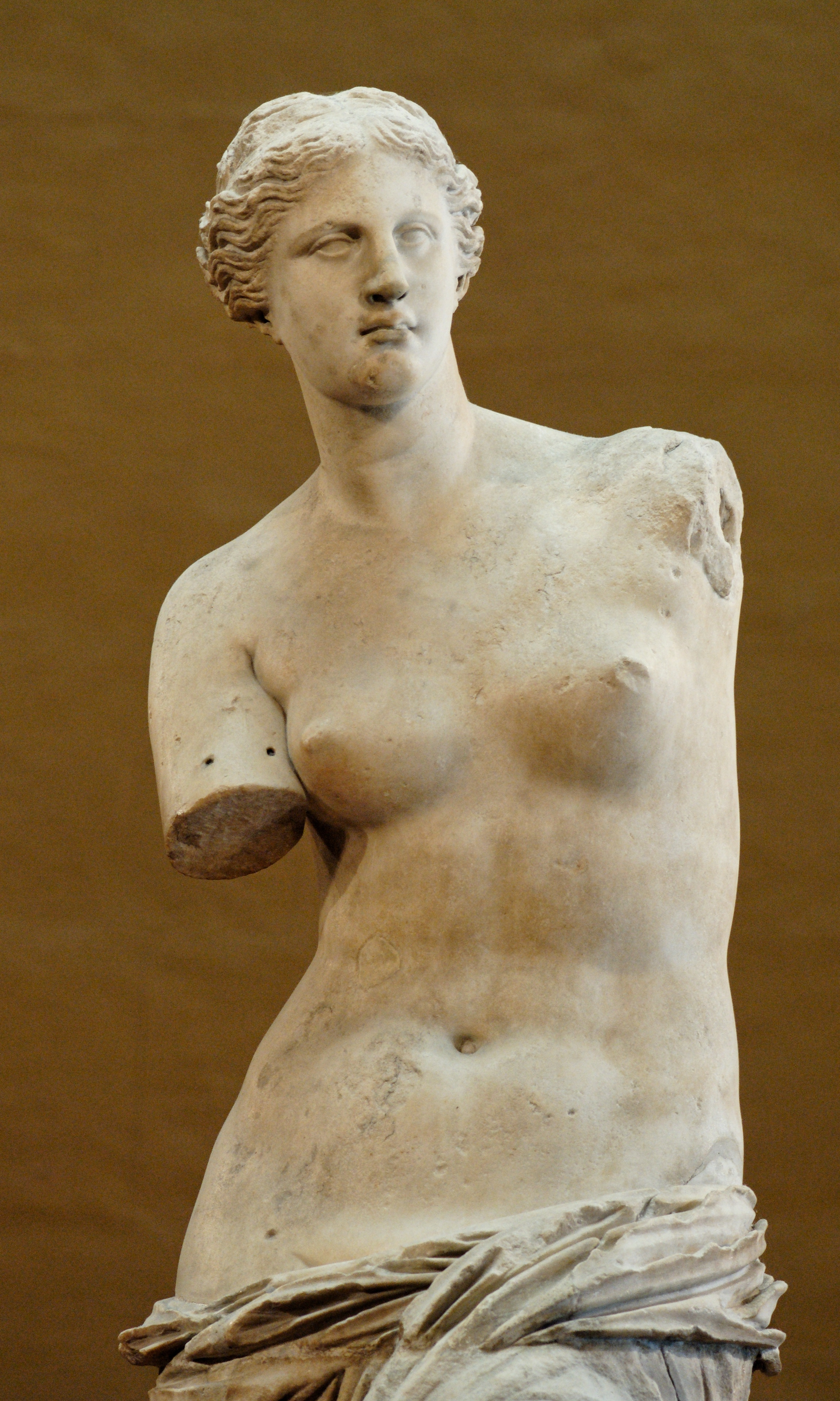 So-called “Venus de Milo” (Aphrodite from Melos). Parian marble, ca. 130-100 BC? Found in Melos in 1820.